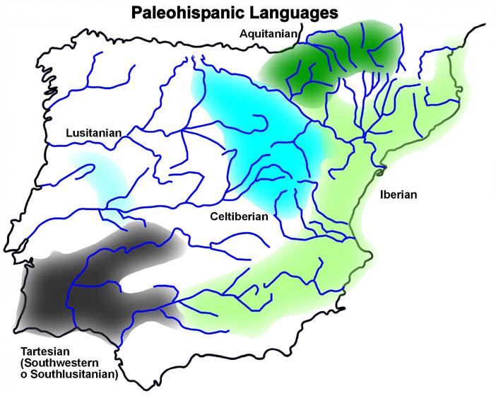 Paleohispanic languages map. English